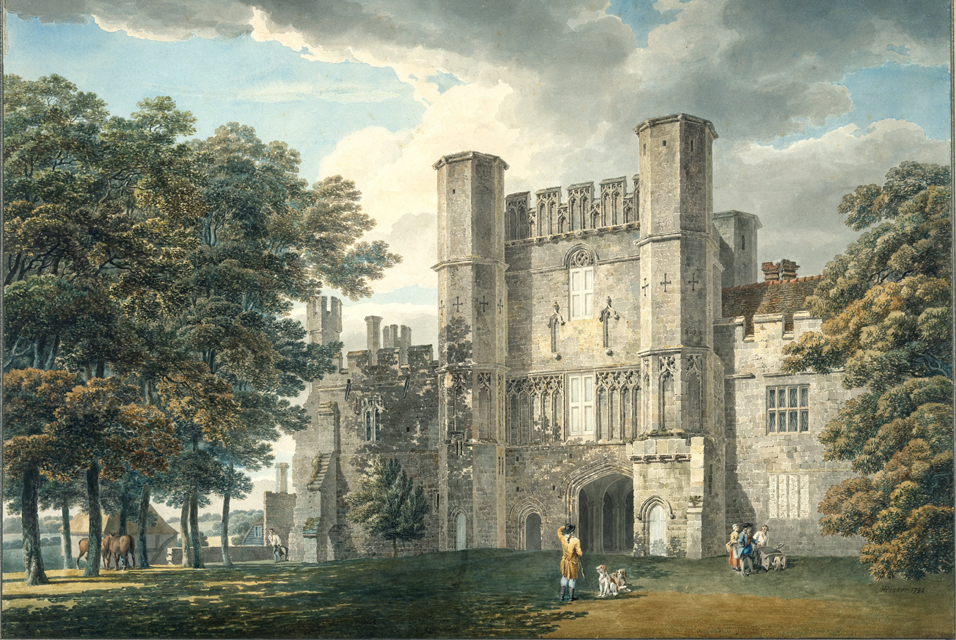 Michael Angelo Rooker, A.R.A., The Gatehouse of Battle Abbey, Sussex, 1792. Pencil and watercolour on wove paper, 41.80 x 59.70 cm. Royal Academy of Arts, London